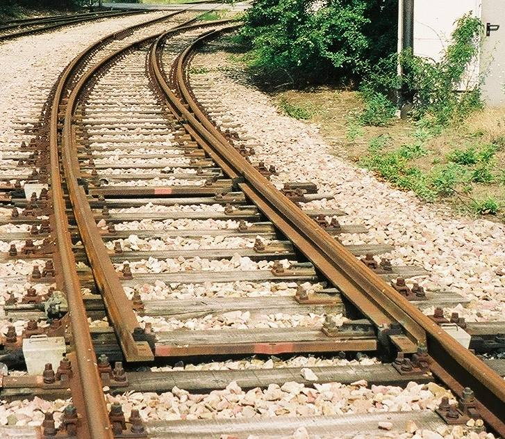 A railroad switch my own photo